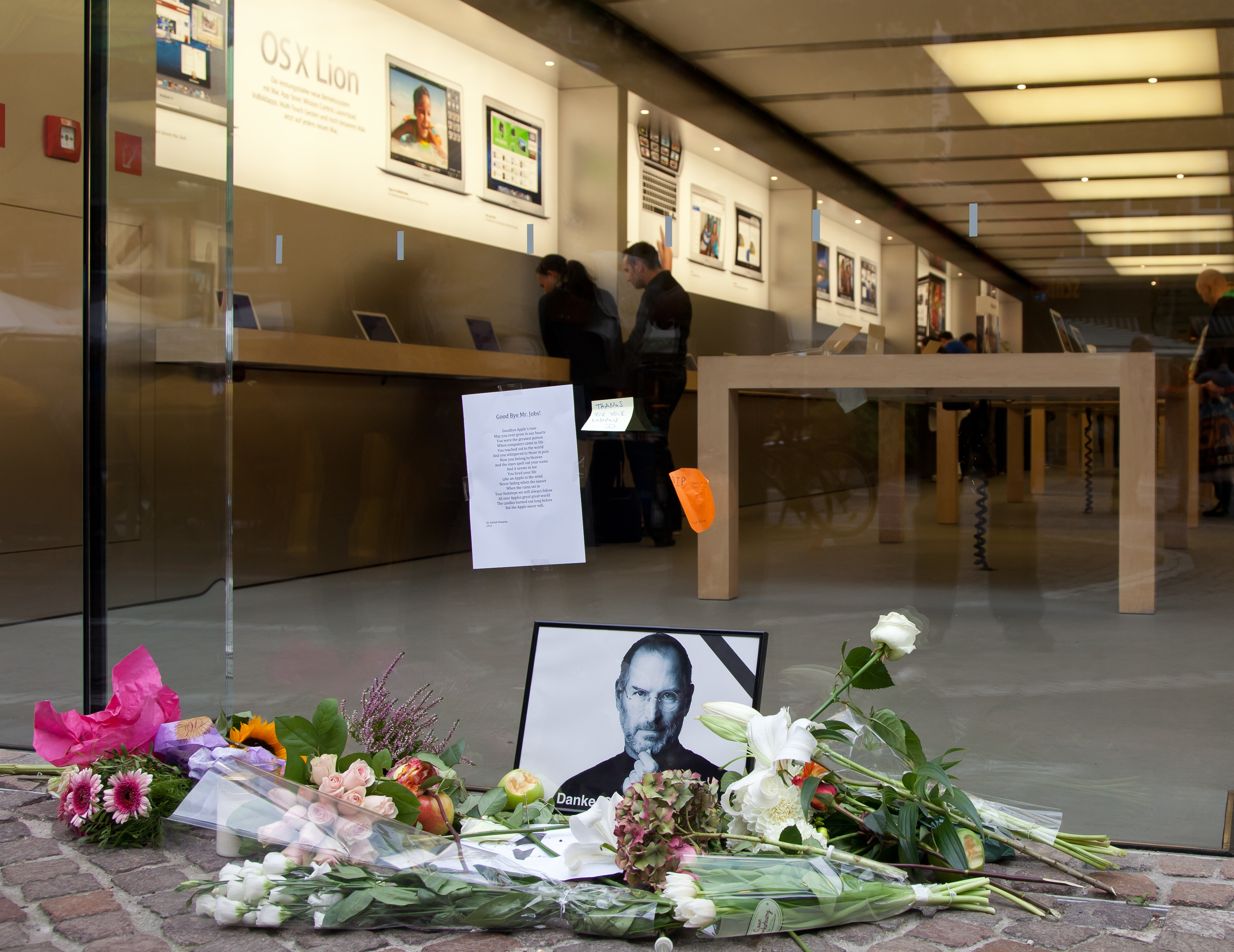 Apple Store in Frankfurt (Germany) after death of Steve Jobs.